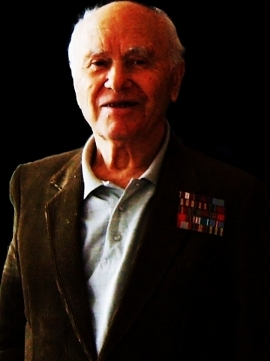 Sokolov V.V. Professor of Philosophy at the Moscow state university